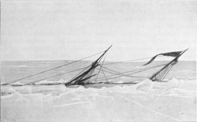 Antarctic, the ship of the Swedish Antarctic Expedition is sinking on February 12th 1903.